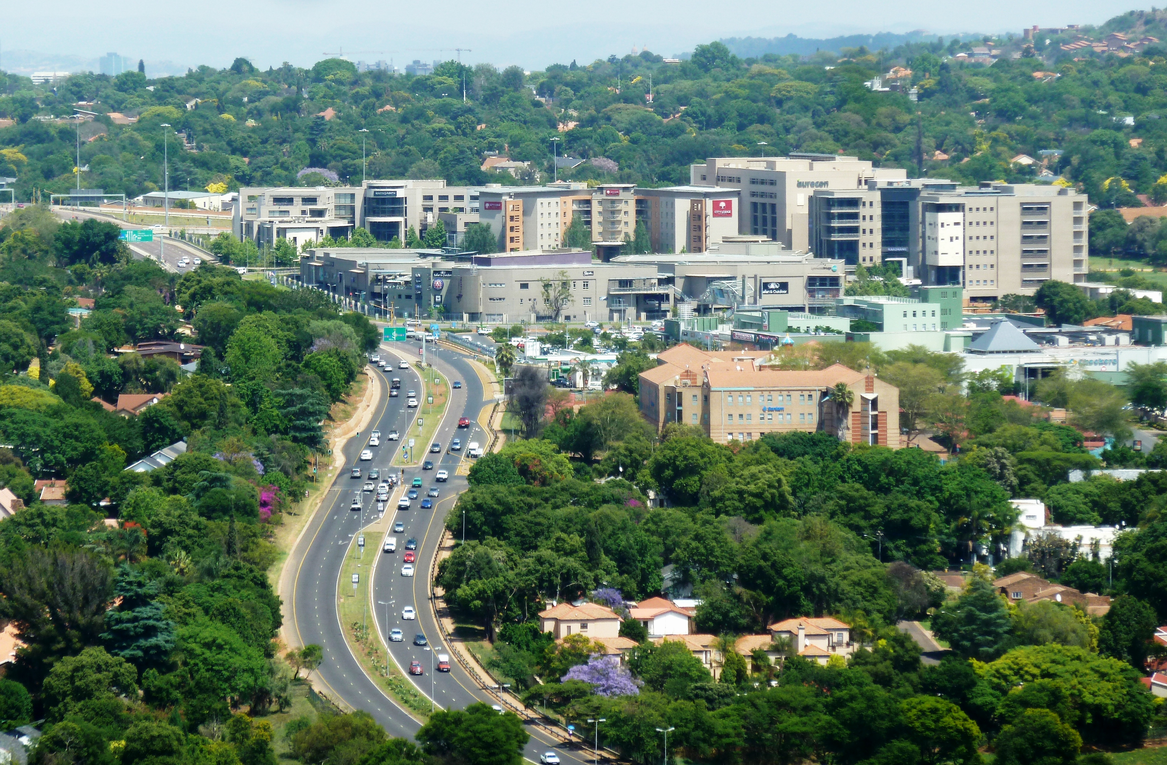 Lynnwood Manor business center beside the N1, Pretoria. Lynnwood Bridge & Glenfair shopping centers, insurance and law firms, a hotel and medical center are situated here. Lynnrodene residential suburb is in the foreground, and Lynnwood Glen is to the left of the winding Lynnwood Road.